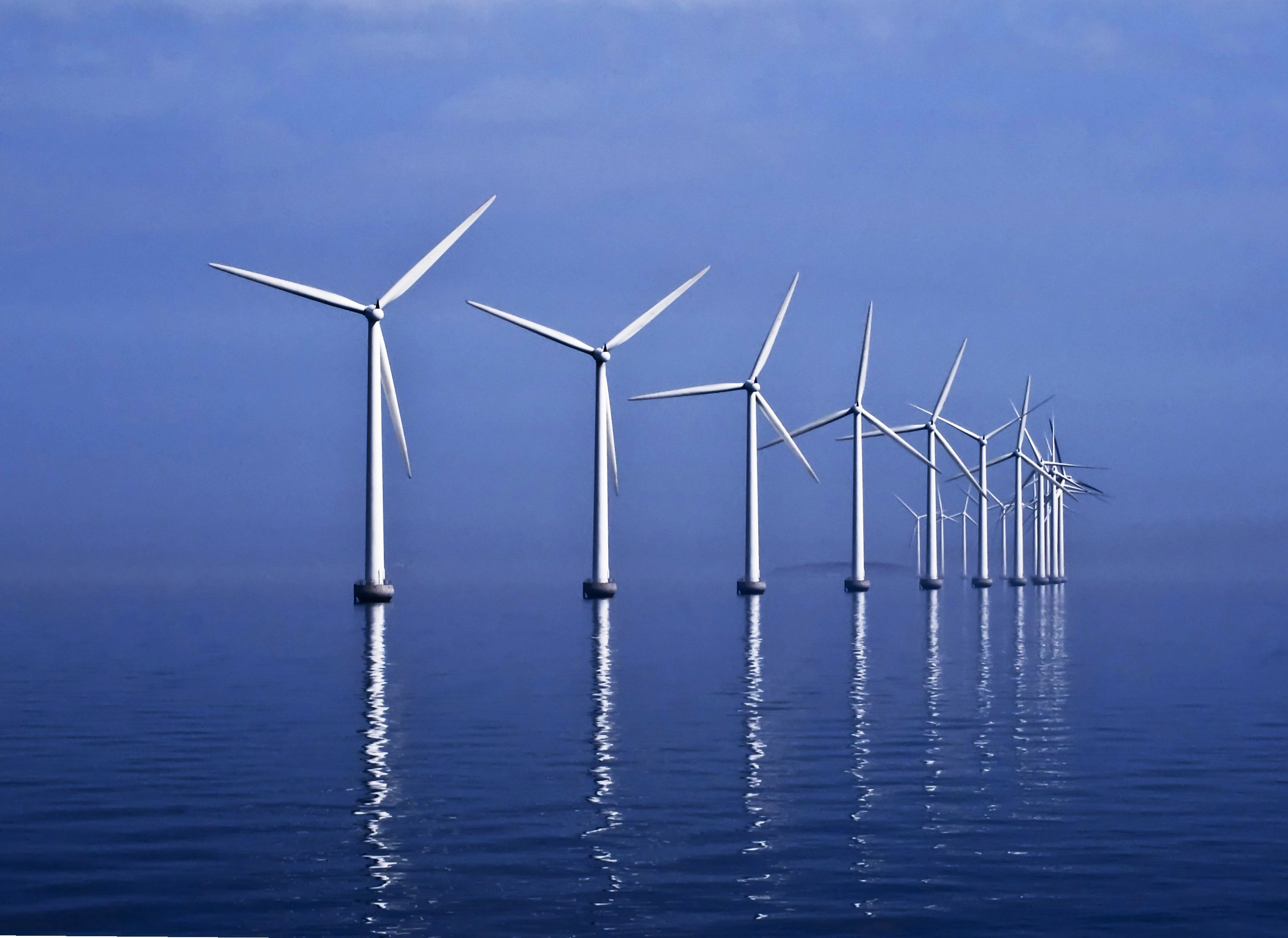 Middelgrunden offshore wind farm (40 MW) observed in Øresund